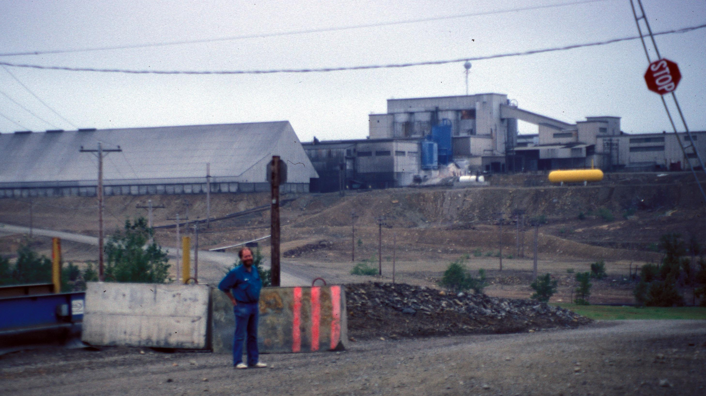 Ore processing facilities at Heath Steele Mines, in northeastern New Brunswick, Canada (BR Walker 1993)